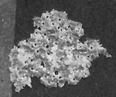 A large flake of dandruff captured by myself